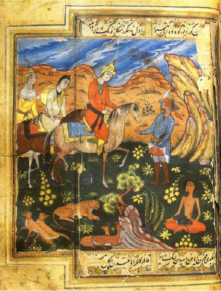 Mejnun in the desert